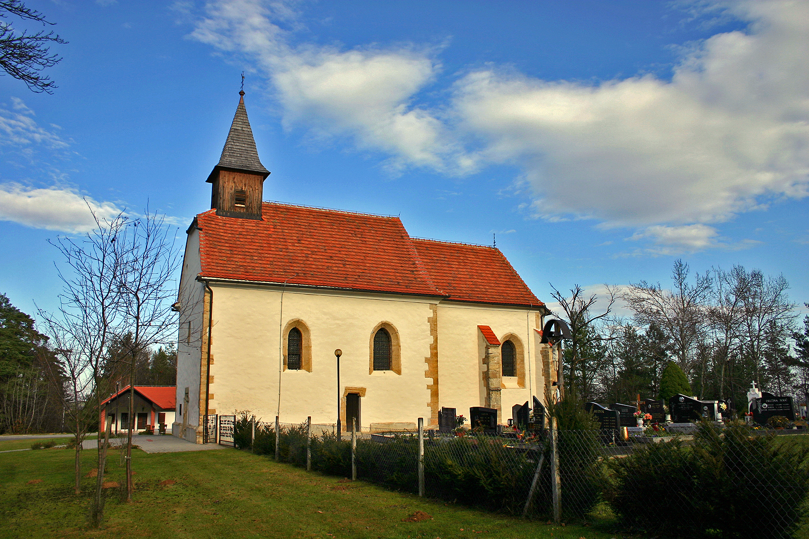 Succursal saint Anne church, Boreča